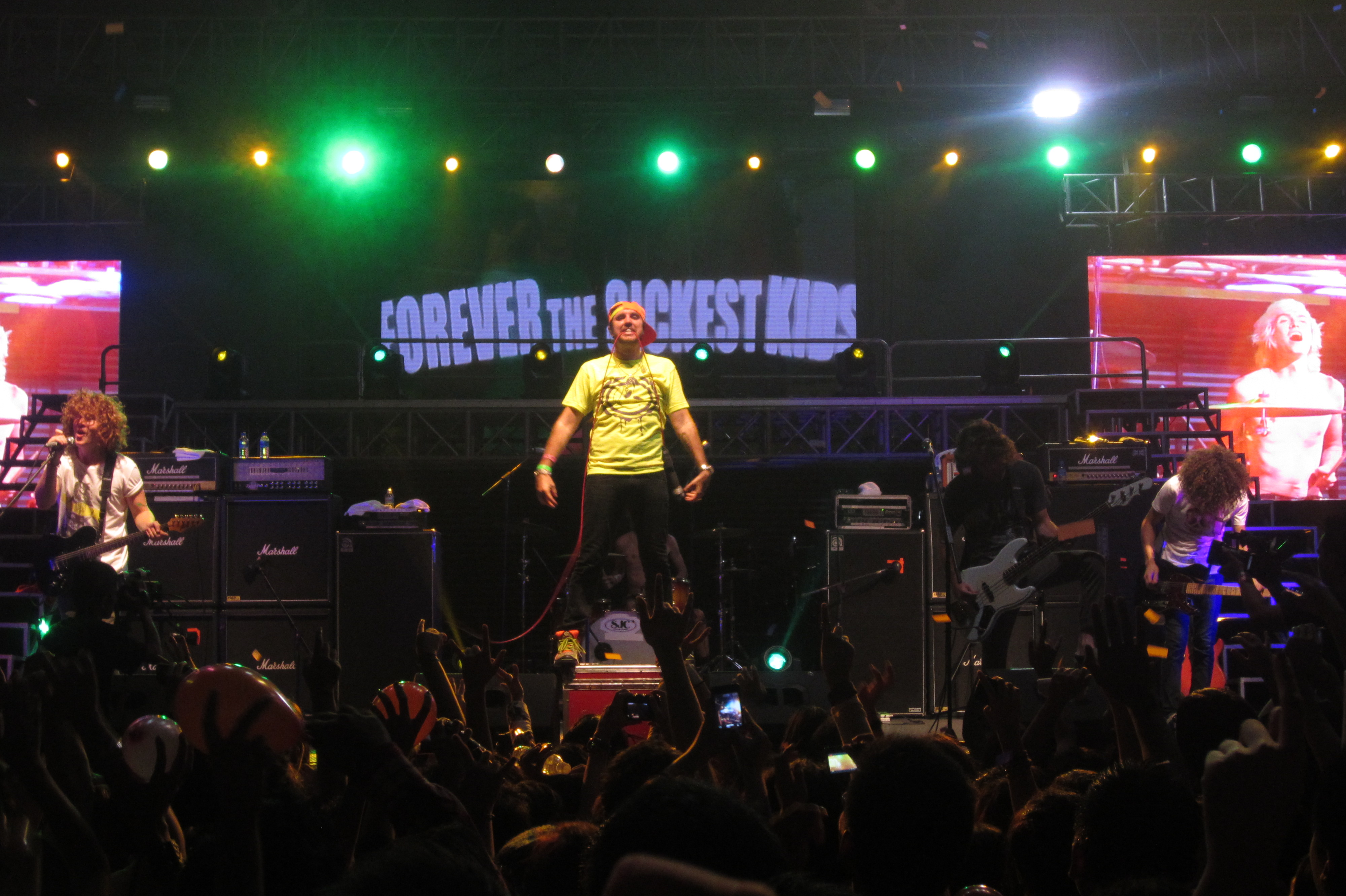 Forever the Sickest Kids performing at Bazooka Rocks 2012, held at the SMX Convention Center in Pasay City, Metro Manila, Philippines. Tagalog: Itinanghal ang Forever the Sickest Kids sa Bazooka Rocks 2012, na ginanap sa SMX Convention Center (bahagi ng SM Mall of Asia), Lungsod ng Pasay, Kalakhang Maynila, Pilipinas.